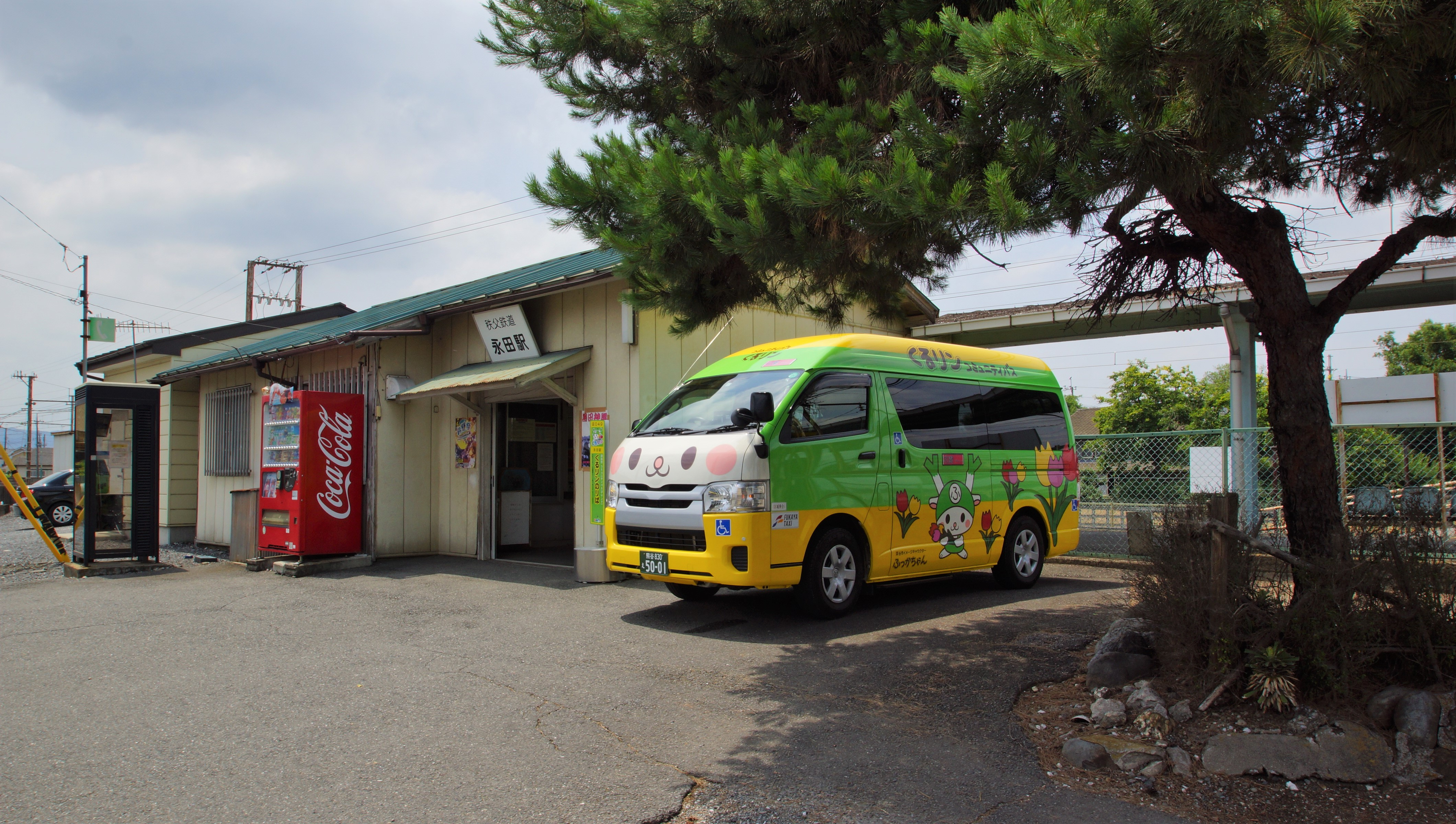 Nagata Station on the Chichibu Main Line in Saitama Prefecture, Japan, with the "Kururin" community bus